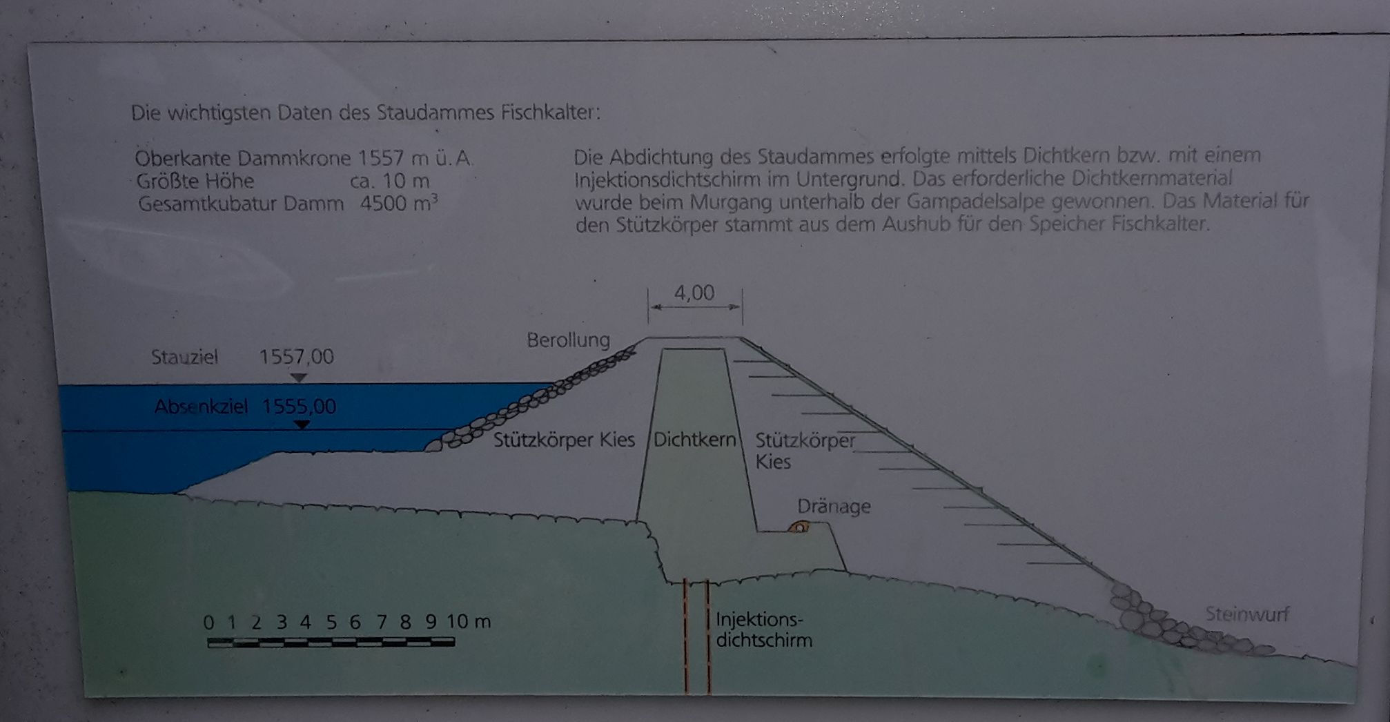 A part of the Information-board near the Kraftwerk Gampadels (first level) by the Vorarlberger Kraftwerke AG. The power station went into operation in 1989. Immediately adjacent to the power plant, the water intake for the next power plant Gampadels (secound level).